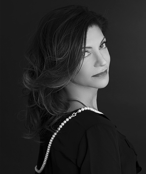 Photo of Dr. Nina Ansary: historian, expert on women's rights in Iran, and author of the bestselling book Jewels of Allah.